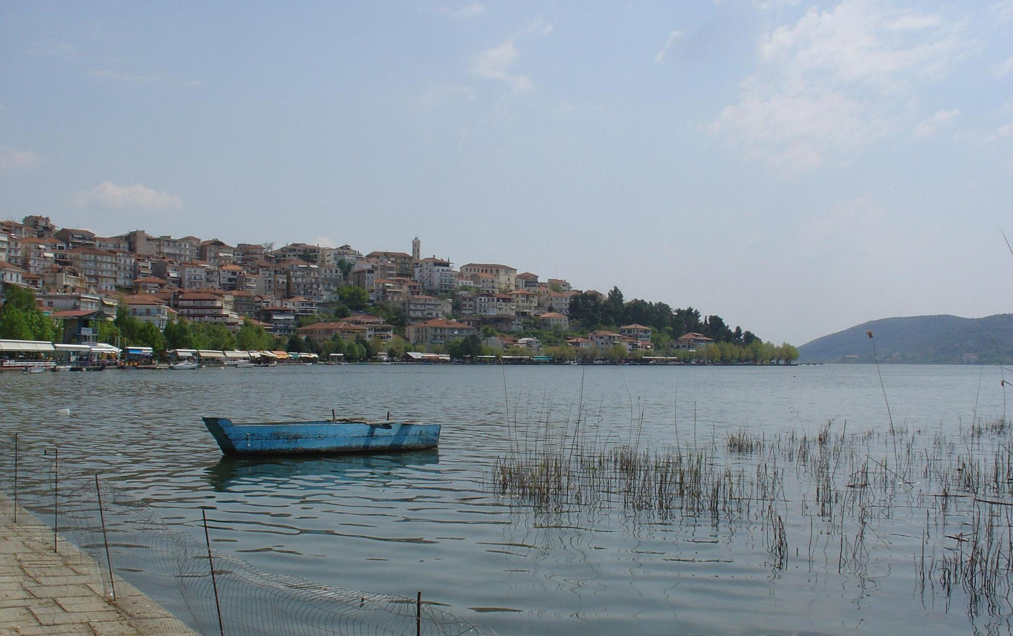 View of the city of Kastoria, Greece and of the lake Orestiada